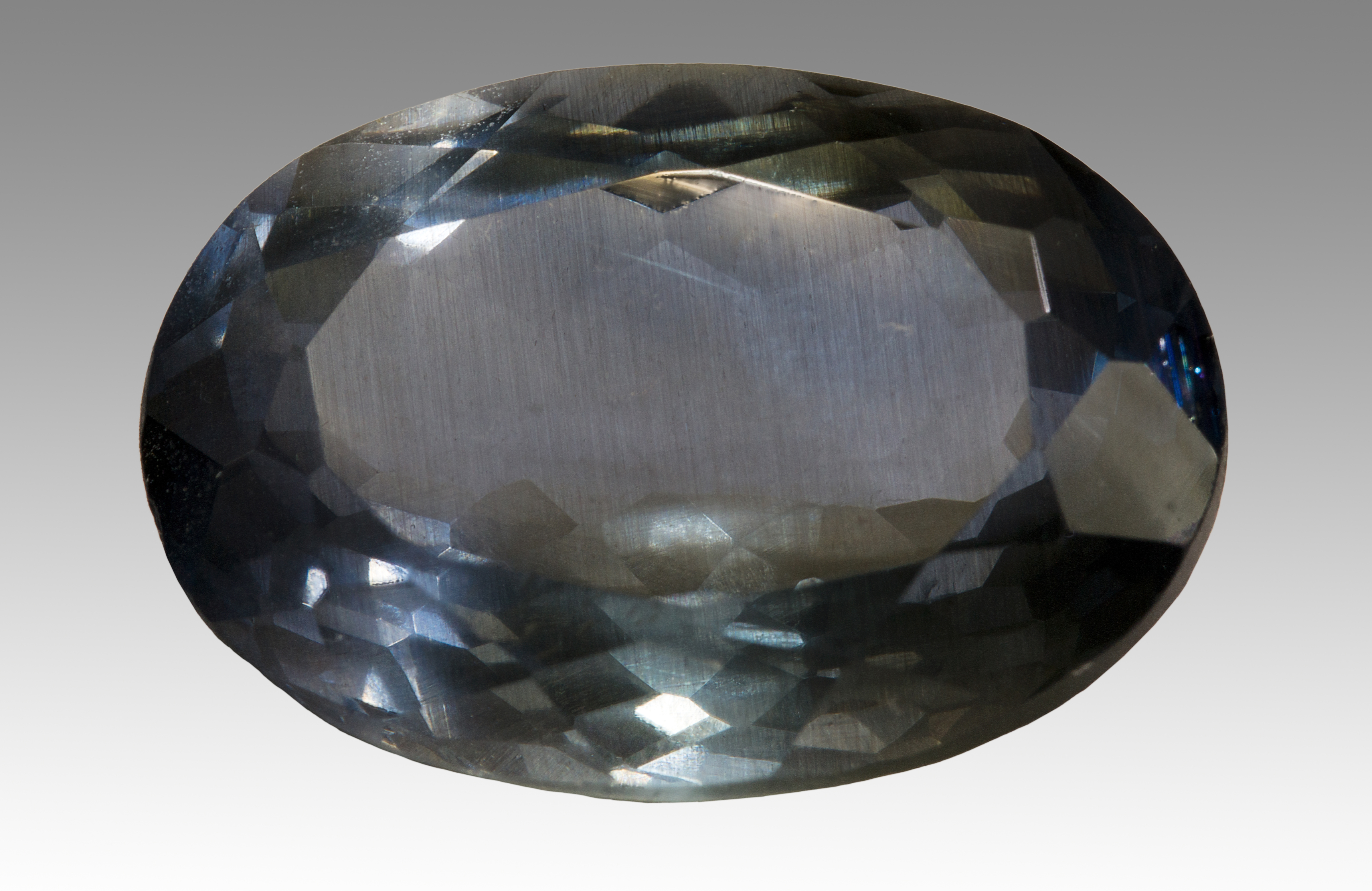 Sillimanite - Cut Locality: Orissa, India Size:, 1.53 x 1.10 x 0.67 cm 8.84Cts